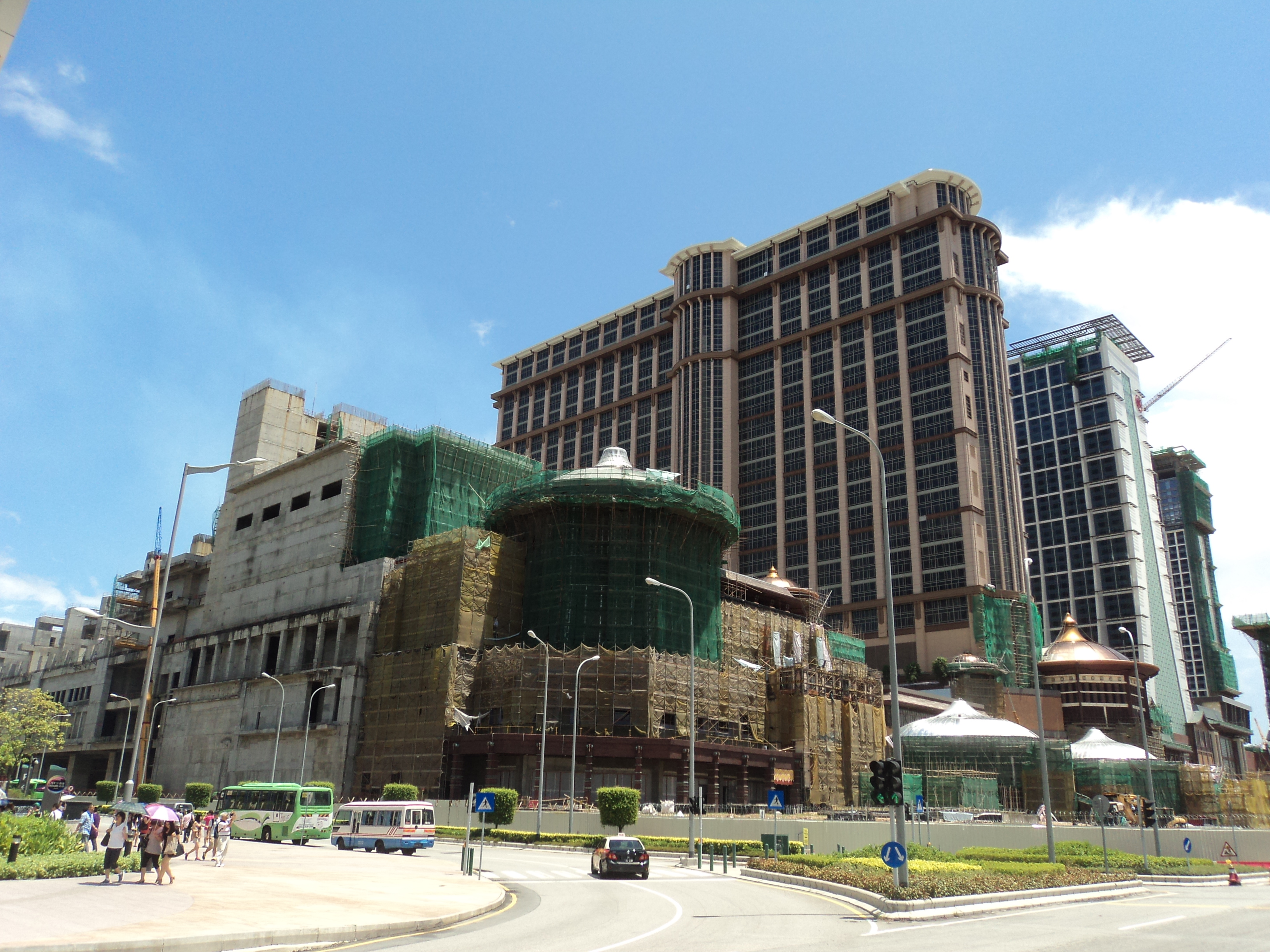 Sands Cotai Central on 18 August 2011